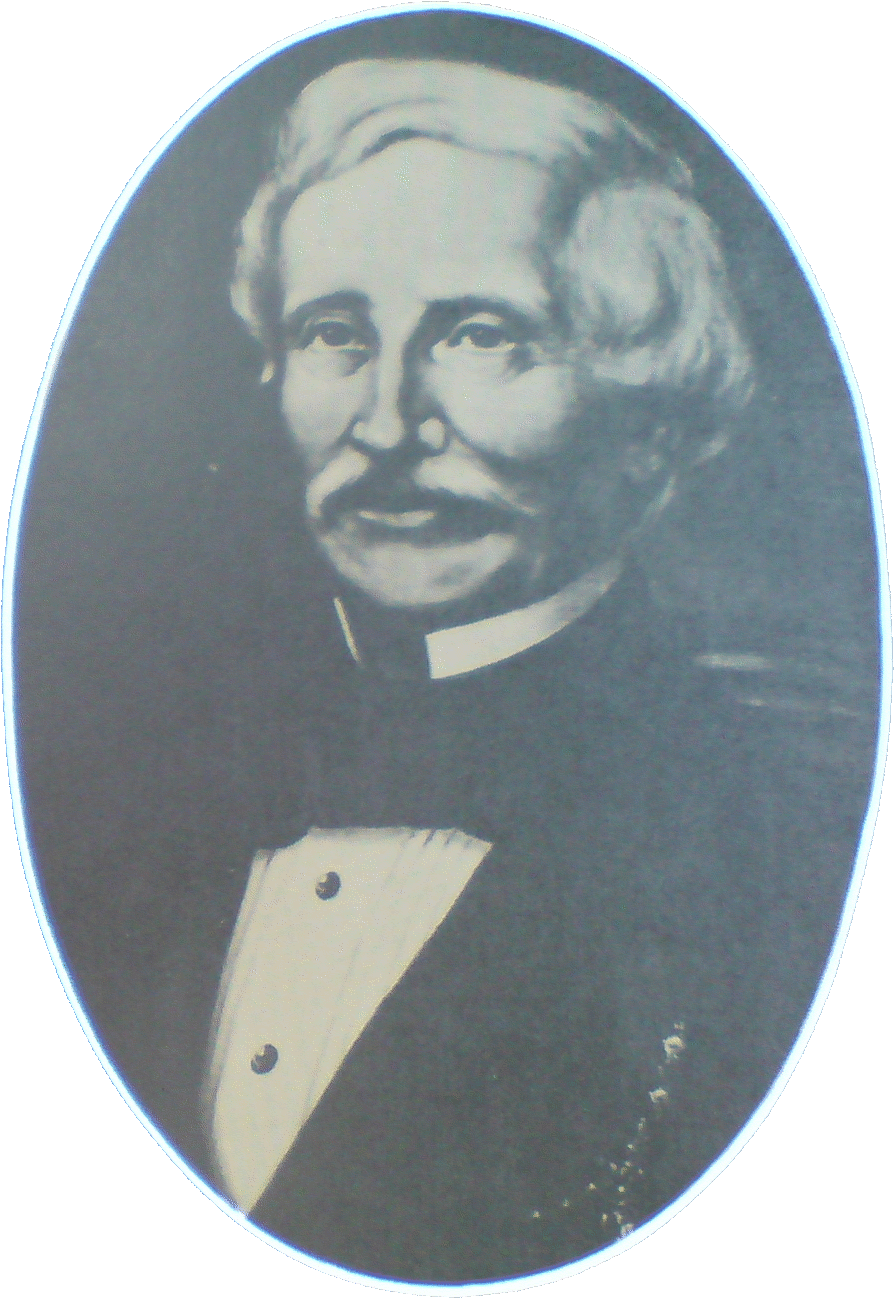 Portrait of Charles Meynier